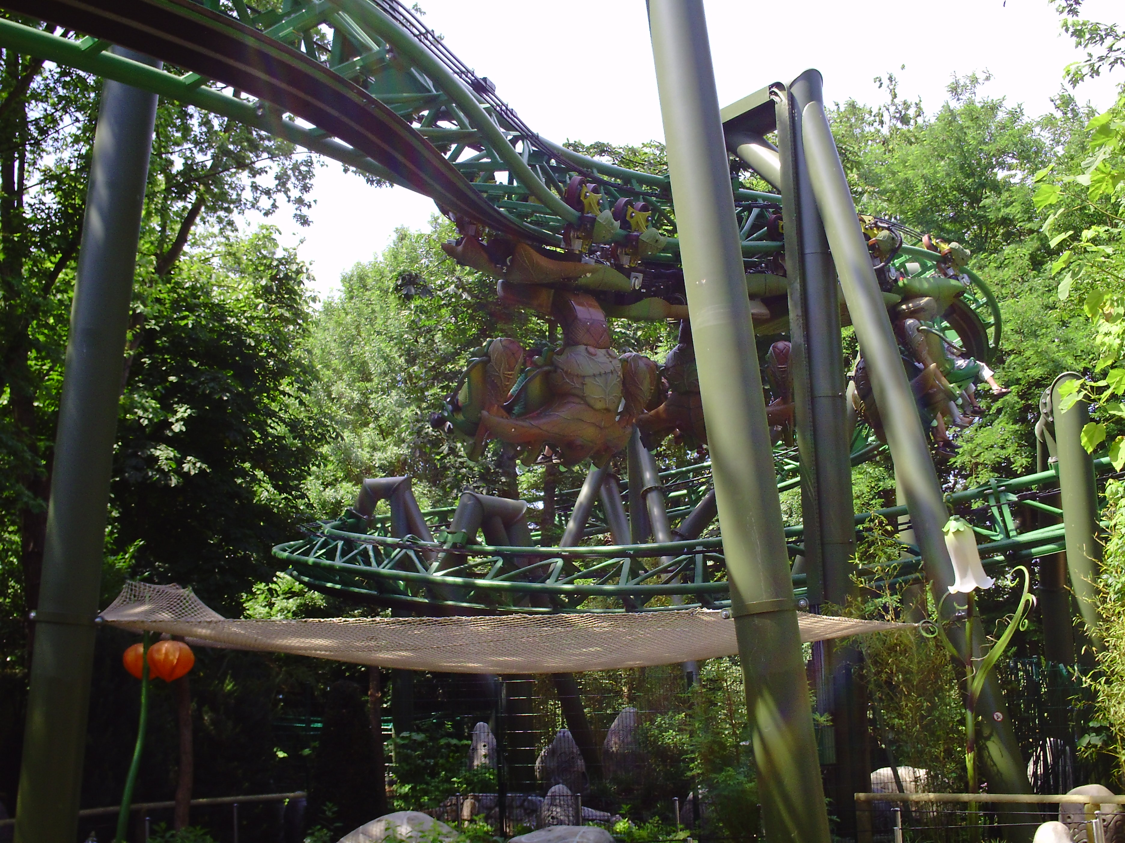 The image shows the outdoor section of the suspended powered coaster Arthur at Europa-Park.